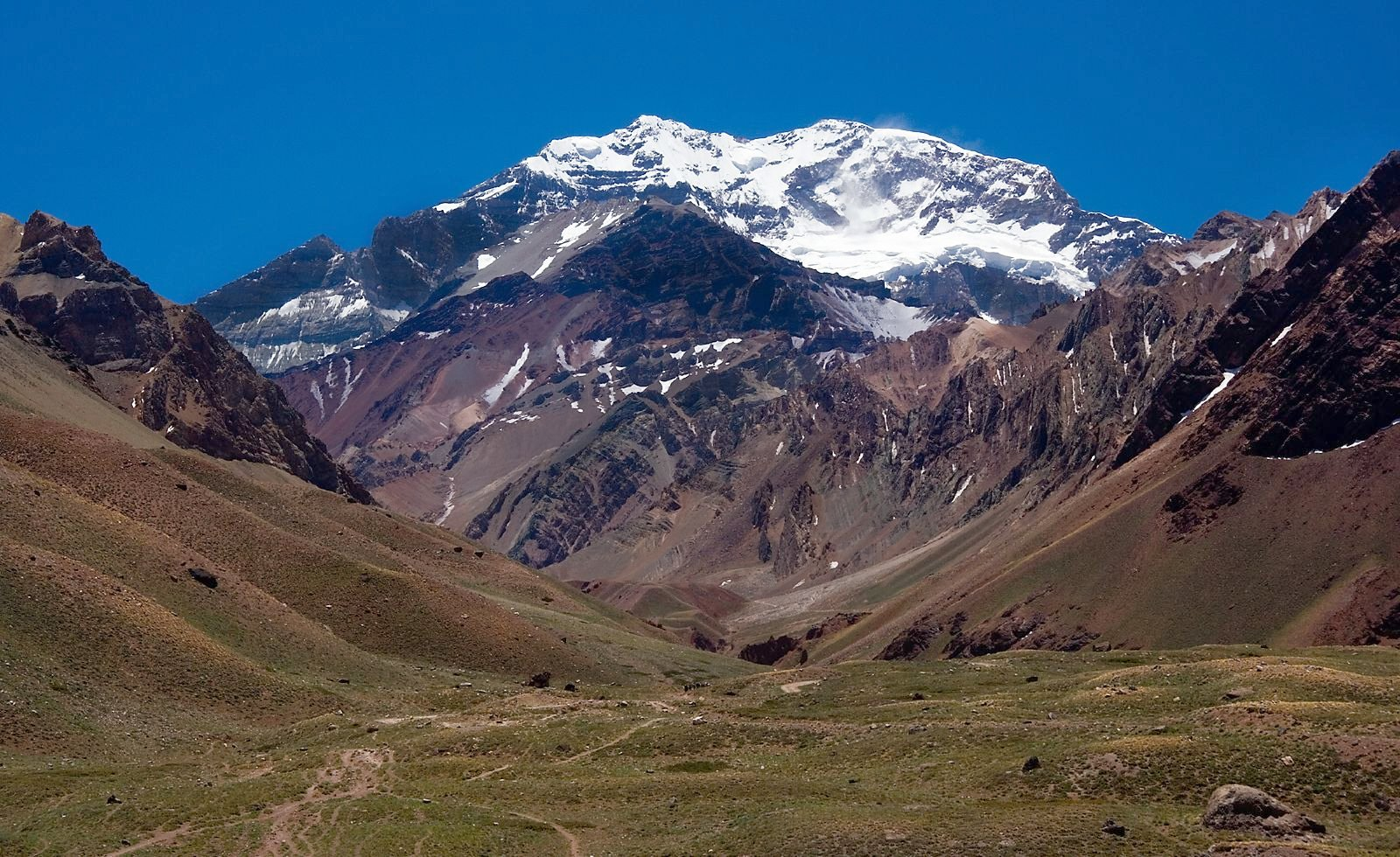 Mendoza region of Argentina